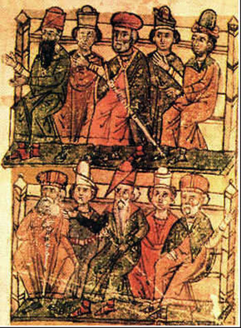 Ilustration XVI century copy of Minning Law of Stefan Lazarević made for Novo Brdo in 1412.